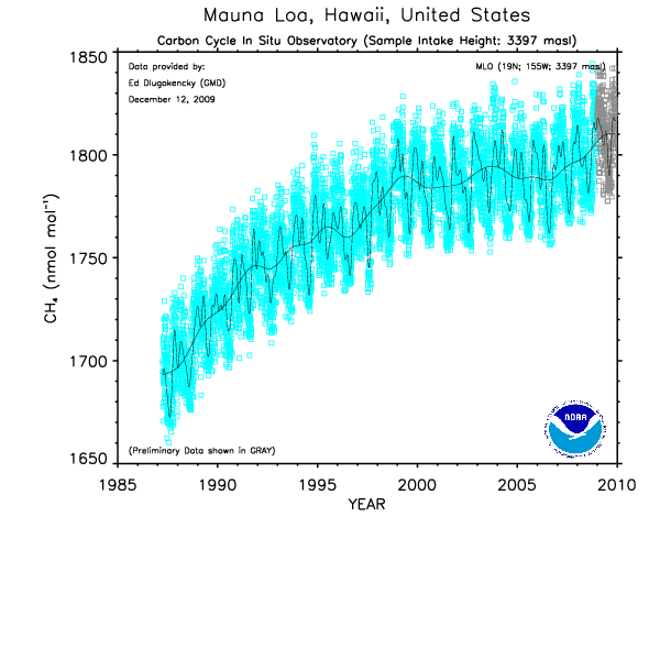 Methane concentration in the atmosphere, as measured at the Mauna Loa Observatory, ppb